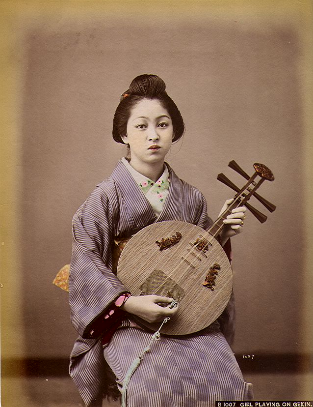 Japanese girl playing on gekkin (月琴). Catalogue number: 1007.